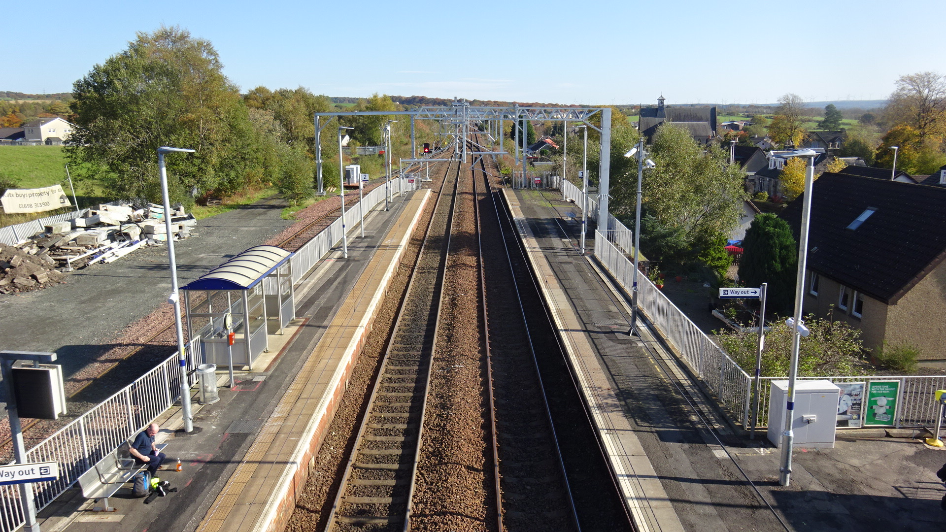 Cleland railway station, the Shotts Line, North Lanarkshire - view east from the bridge. First known as Bellsland and later Omoa.